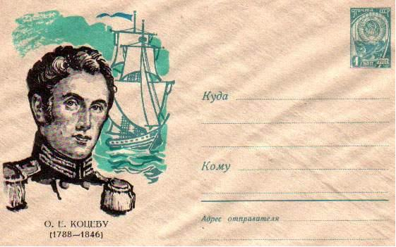 Cover of the Soviet Union (postal stationery), with a picture of Otto von Kotzebue, a German Baltic person at Russian service. 1964